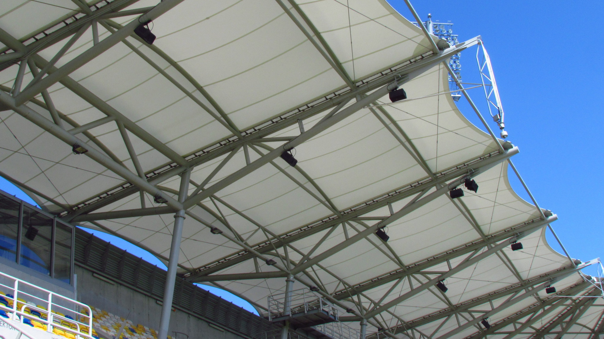 Membrane canopy